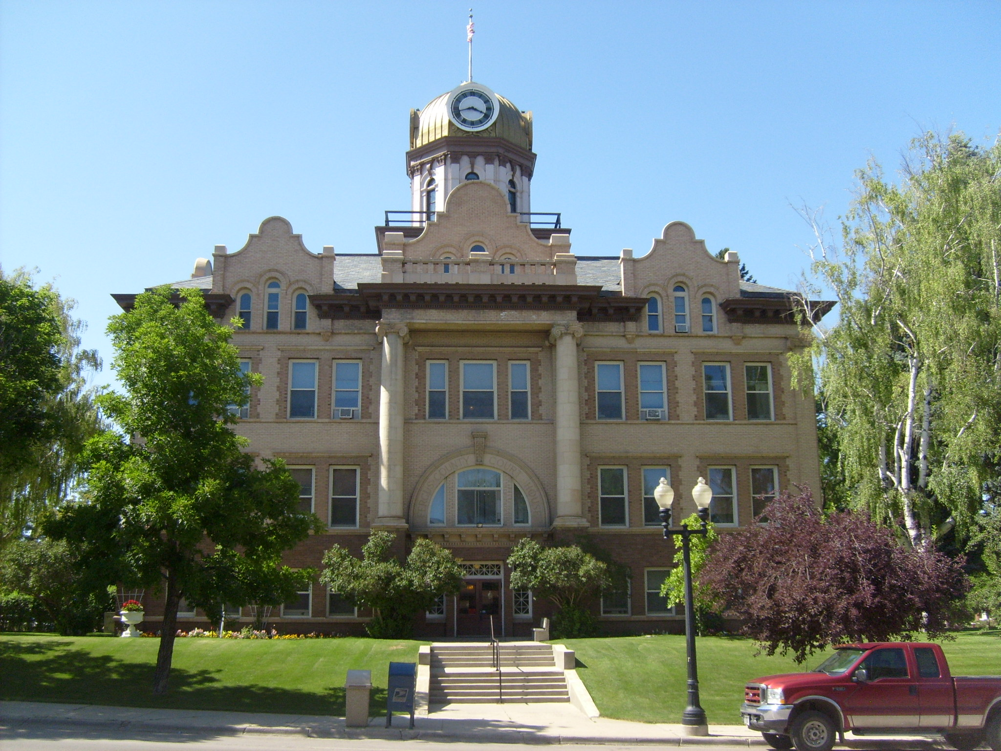 Lewistown MT Fergus County Courthouse